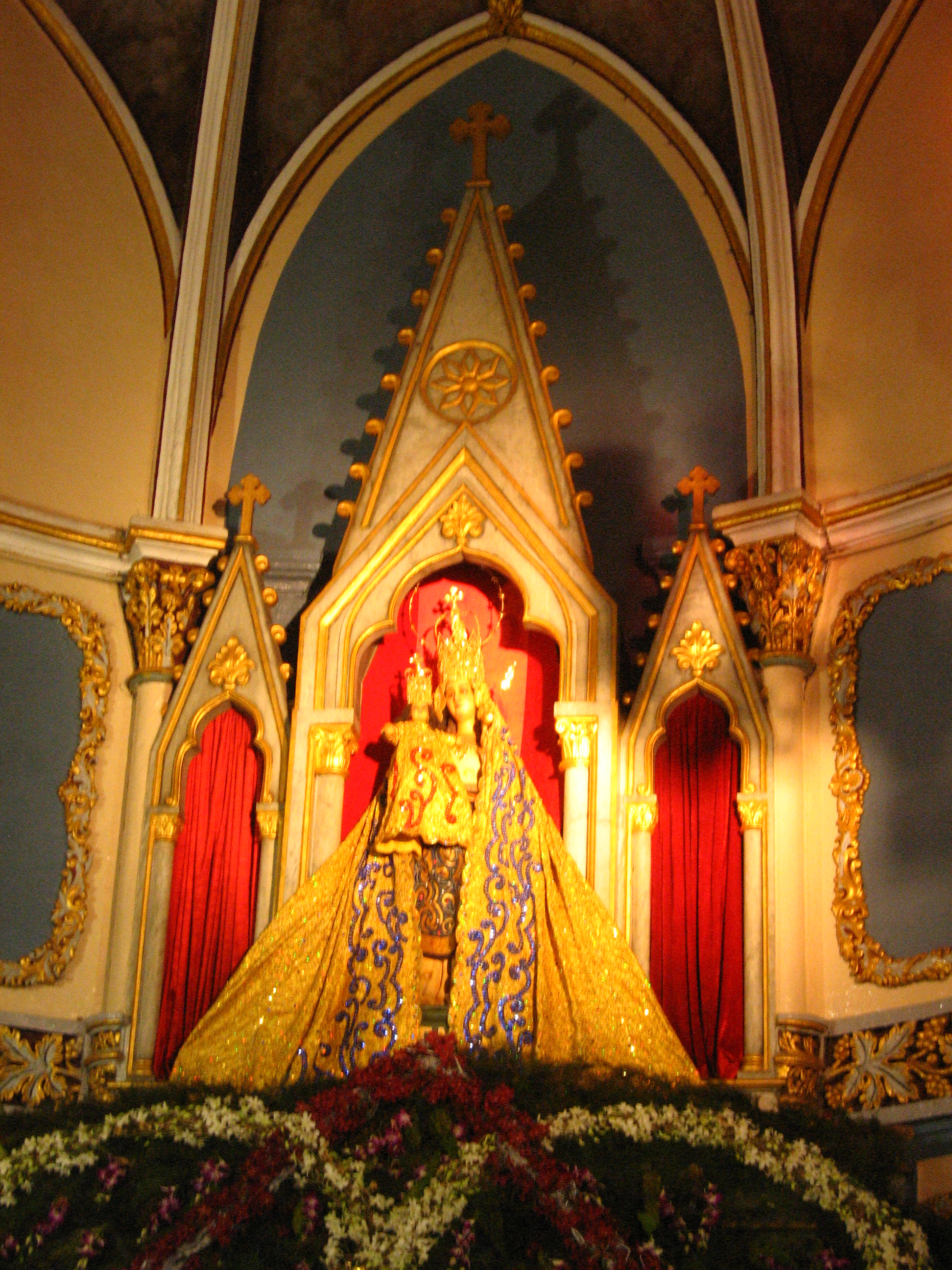 Mount Mary's Church in Bandra, Mumbai